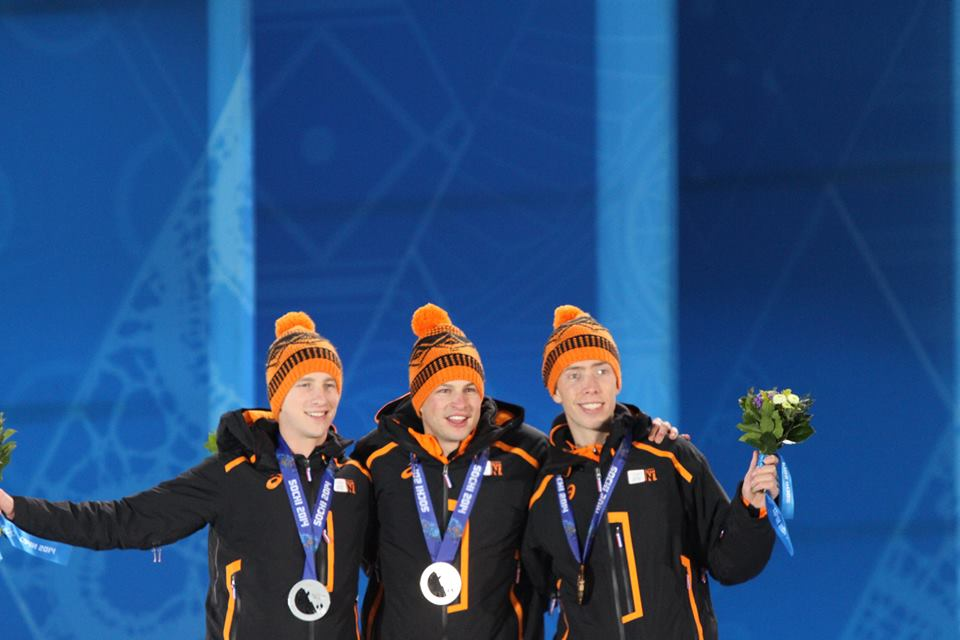 Men's 5000m, 2014 Winter Olympics, Podium with medals Sven Kramer, Jan Blokhuijsen, Jorrit Bergsma